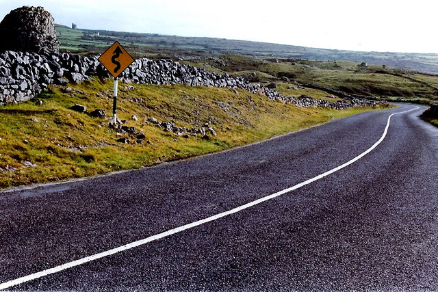 Burren - R477 southwest of Black Head - View to SW